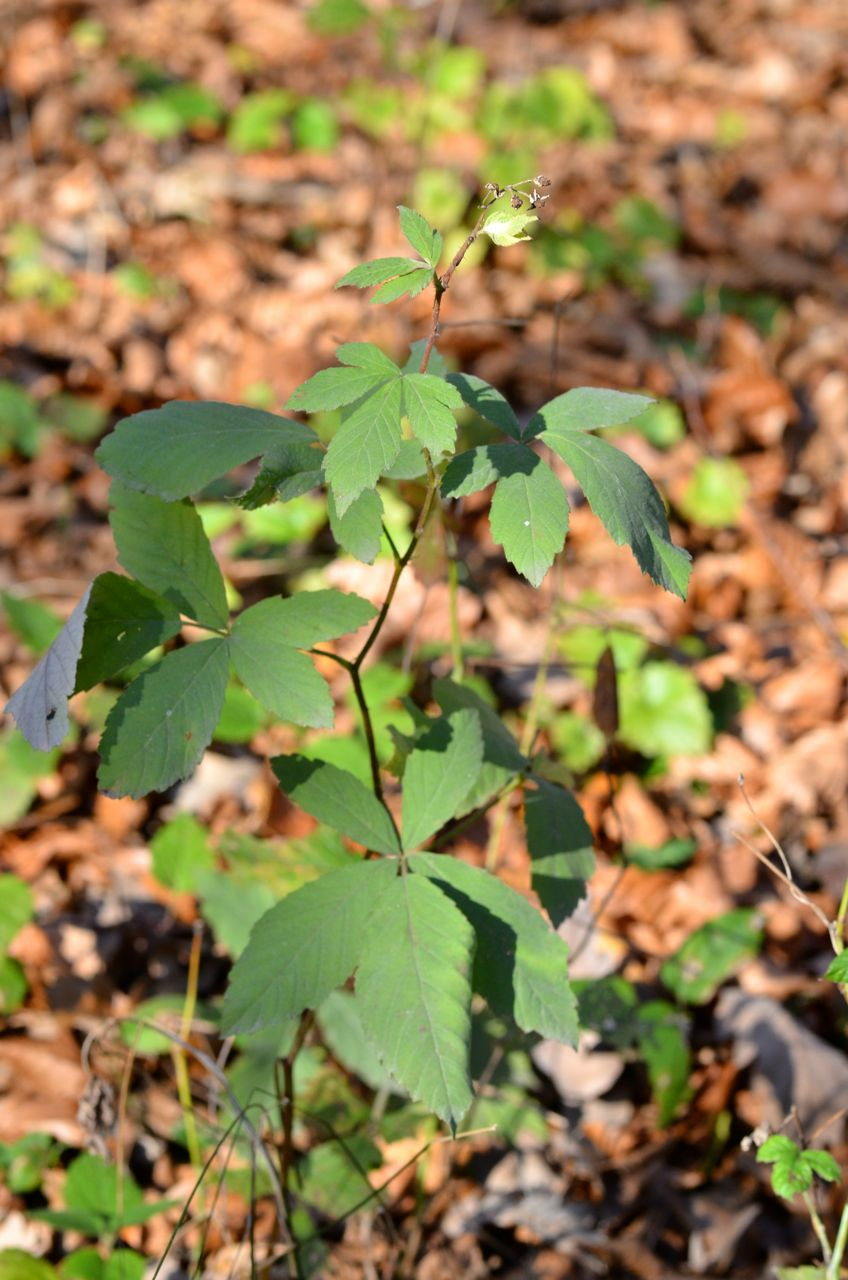 Rubus canescens - Filz-Brombeere